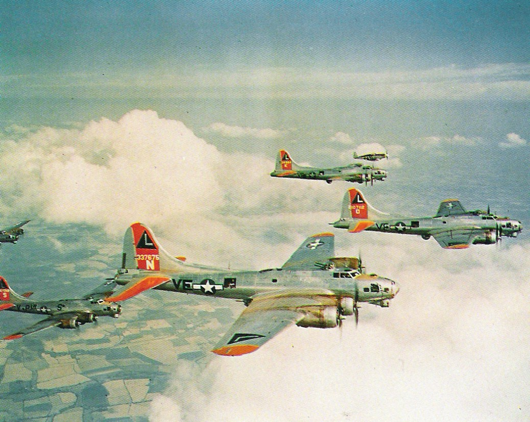 U.S. Army Air Force Boeing B-17G Flying Fortress bombers of the 381st Bomb Group, escorted by a North American P-51B Mustang of the 355th Fighter Group, during a practice mission over England in late 1944.